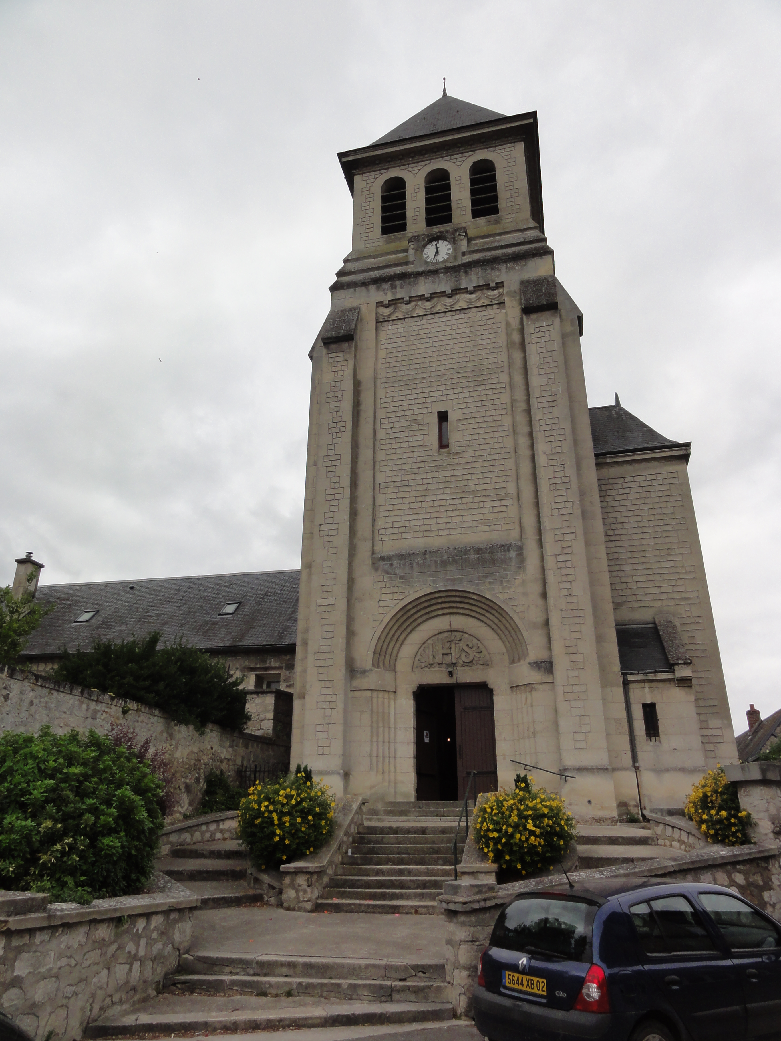 Venizel (Aisne) église Saint-Crépin et Saint-Crespinien